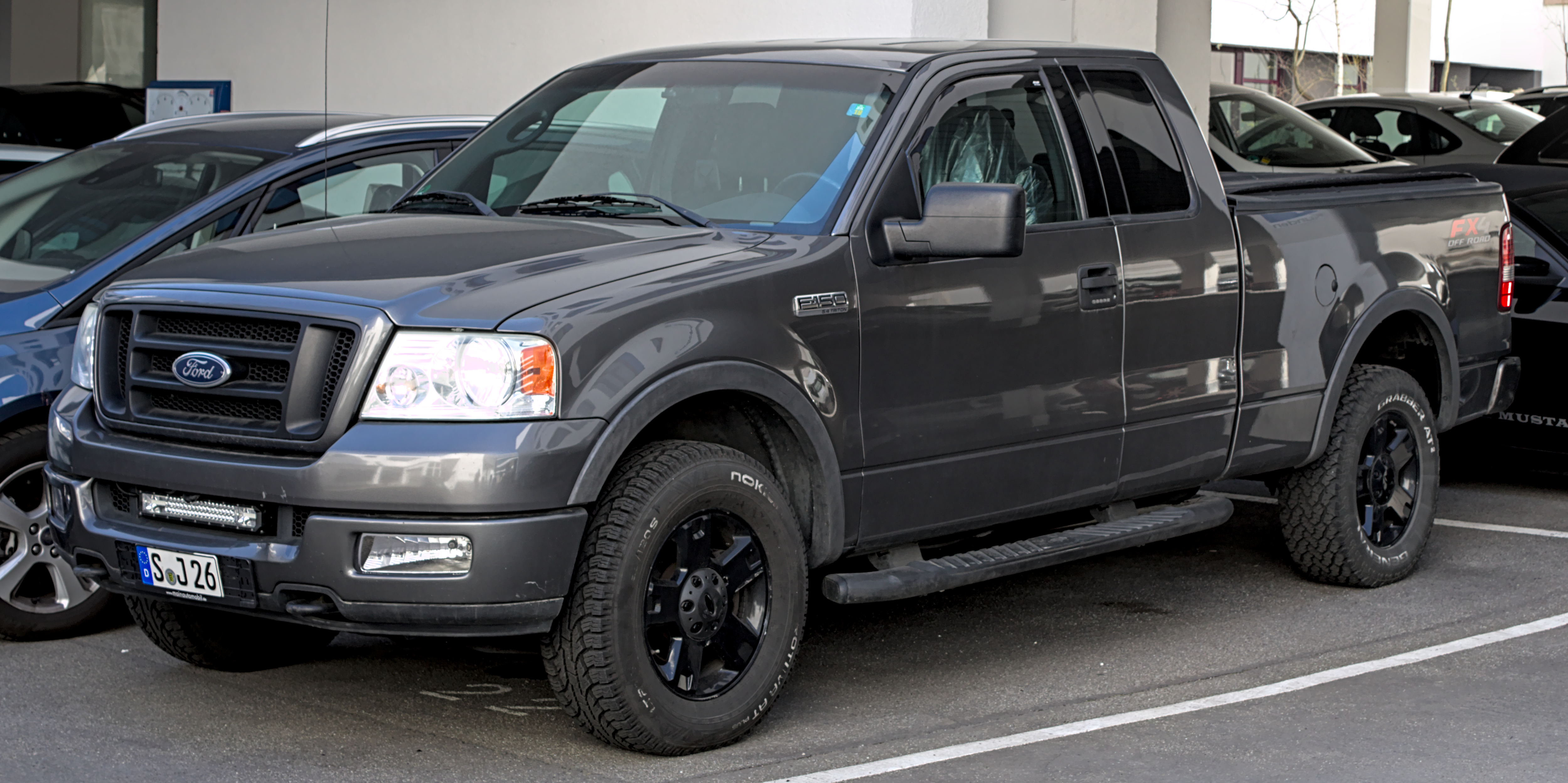 Ford_F-150_(eleventh_generation) in Stuttgart-Vaihingen